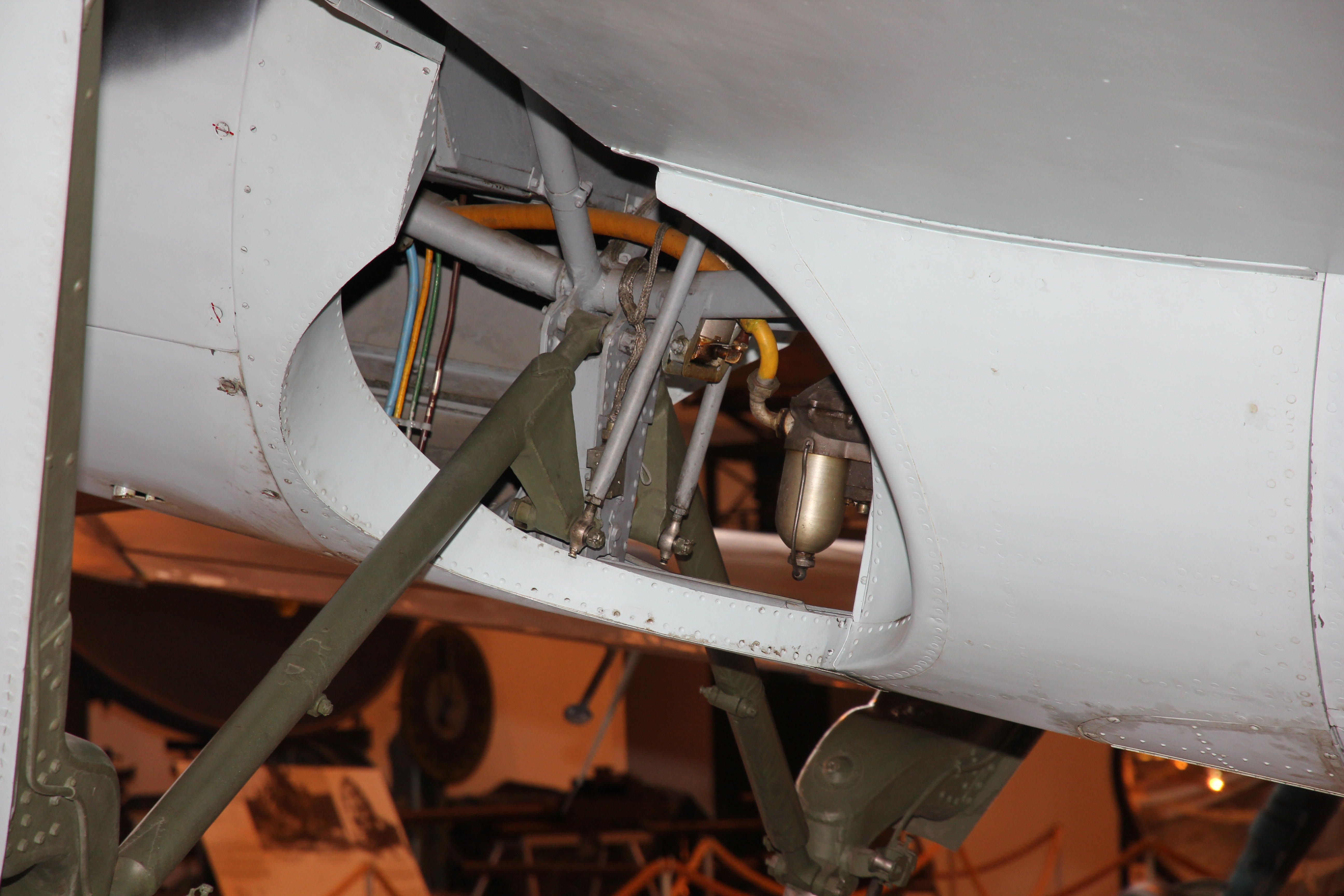 VL Humu prototype HM-671 undercarriage detail in the Aviation Museum of Central Finland.